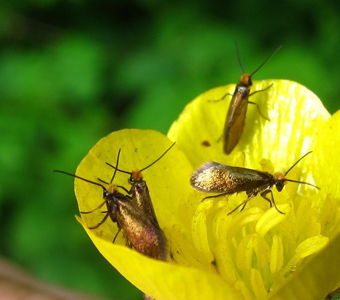 Micropterix calthella Location: The Netherlands - Schijndel - Wijboschbroek